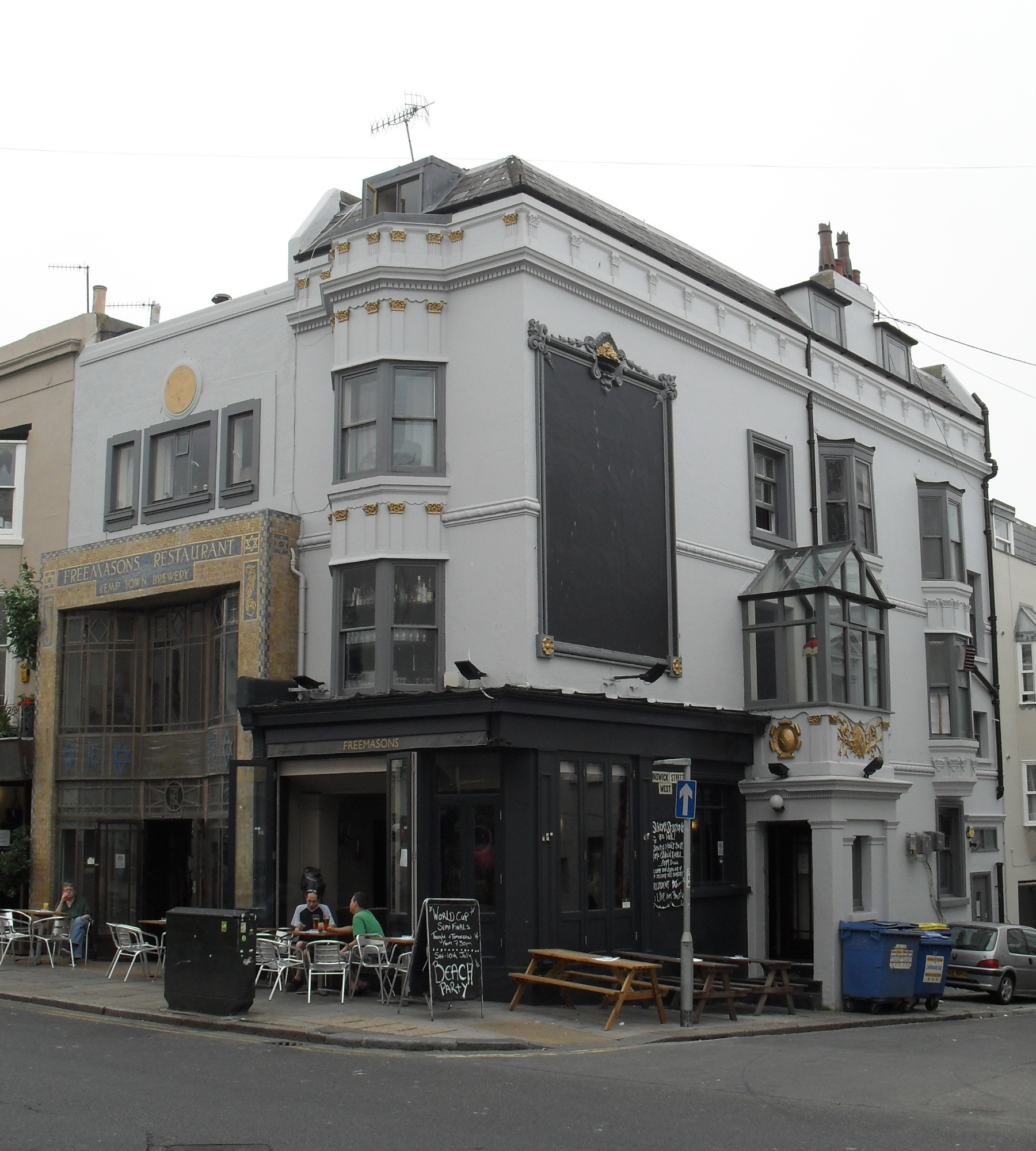 Freemasons Inn and Restaurant, Western Road, Brunswick Town, Hove, City of Brighton and Hove, East Sussex. Built in about 1870 as an inn; an elaborately decorated Art Deco-style restaurant was added in 1928. Listed at Grade II by English Heritage (IoE Code 365664)